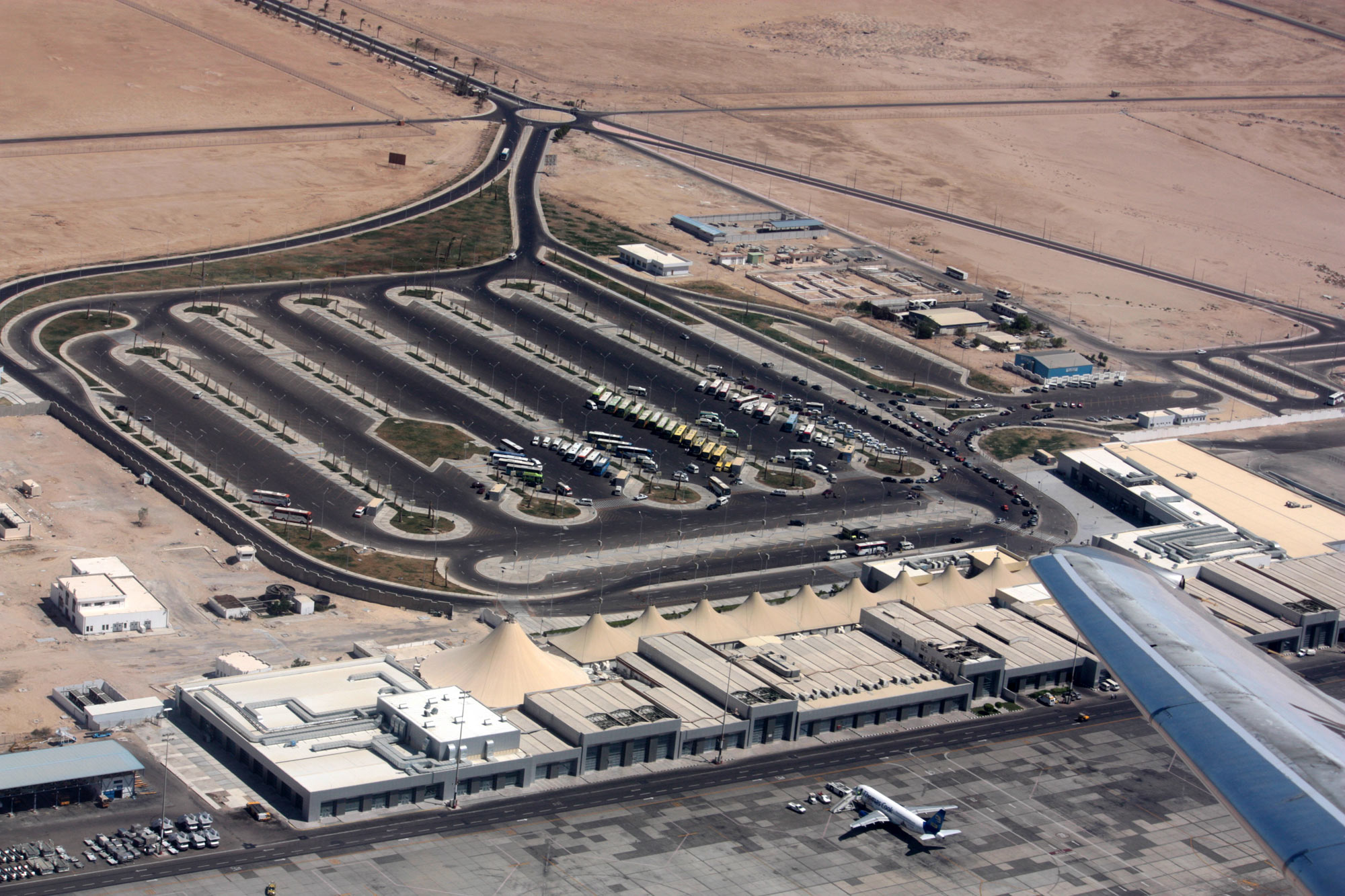 Hurgada Airport aerial